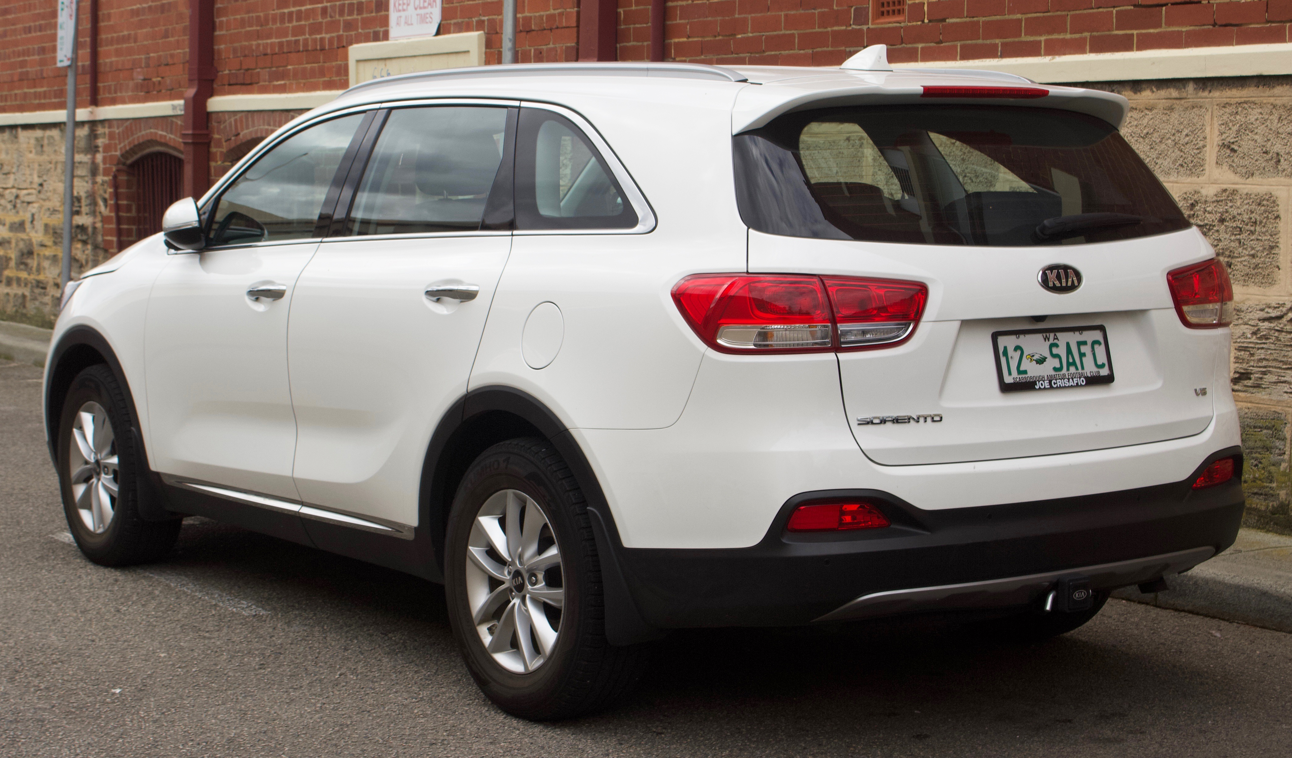 2017 Kia Sorento (UM MY17) Si V6 AWD wagon. Photographed in Fremantle, Western Australia, Australia.